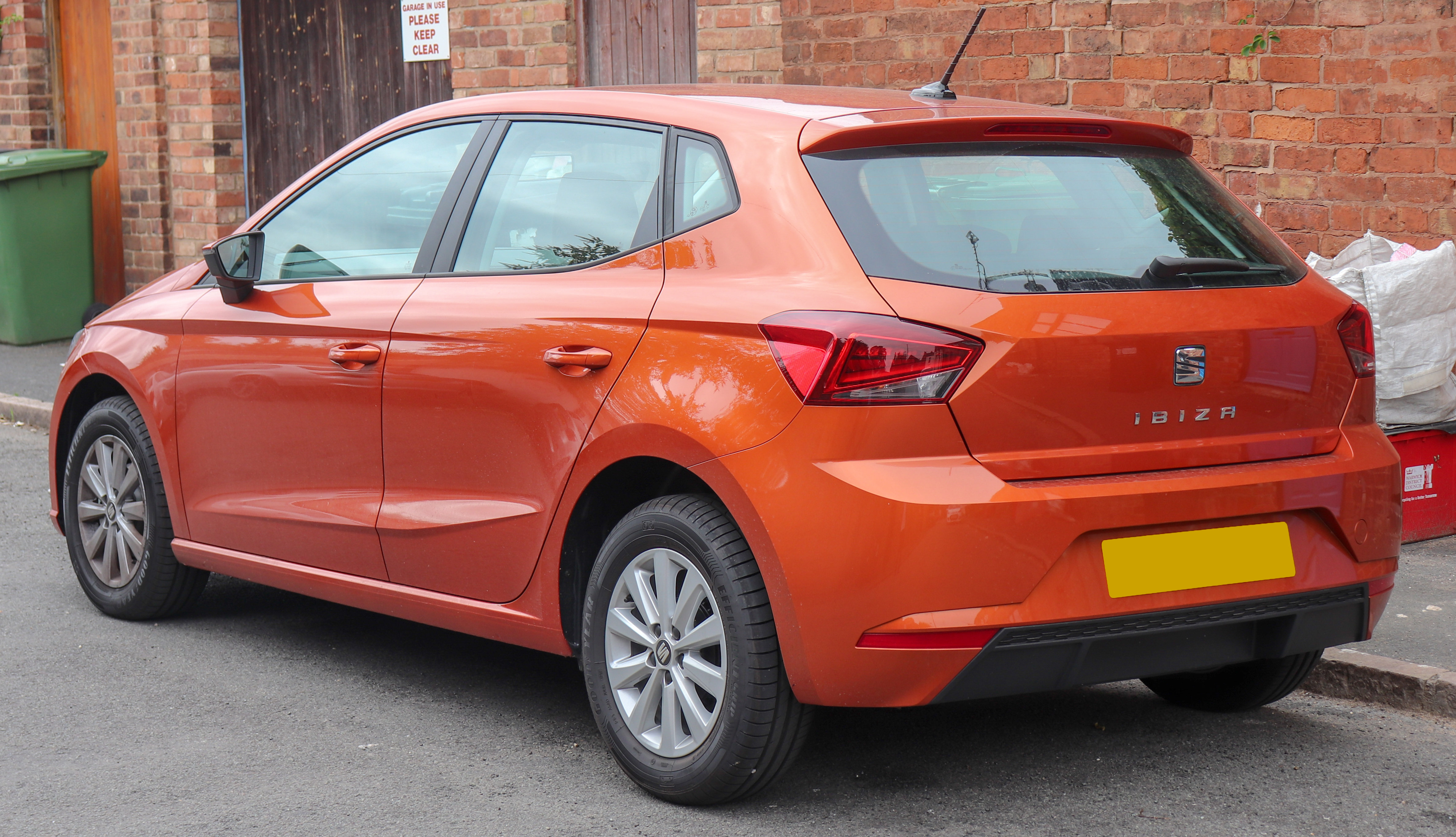 2018 SEAT Ibiza SE Technology MPi 1.0 Rear Taken in Leamington Spa